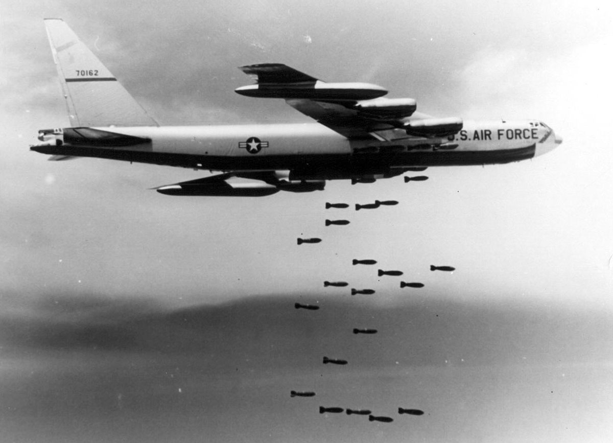 A U.S. Air Force Boeing B-52F-70-BW Stratofortress (s/n 57-0162, nicknamed "Casper The Friendly Ghost") from the 320th Bomb Wing dropping M117 750 lb (340 kg) bombs over Vietnam. This aircraft was the first B-52F used to test conventional bombing in 1964, and later dropped the 50,000th bomb of the "Arc Light" campaign. B-52Fs could carry 51 bombs and served in Vietnam from June 1965 to April 1966 when they were replaced by B-52Ds which could carry 108 bombs.